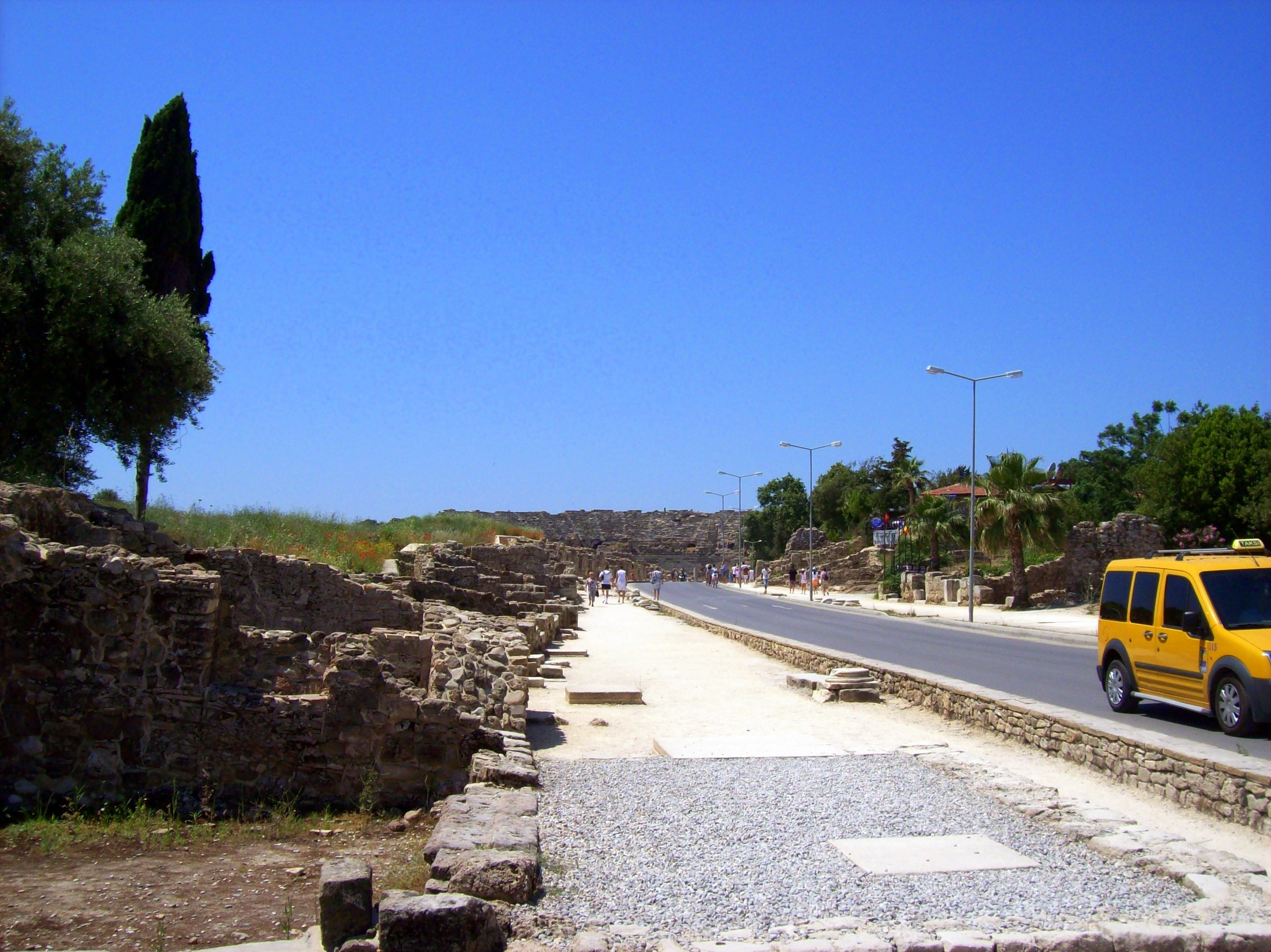 This portion of the main street in Side, Turkey is lined with the ruins of homes or shops, many of which feature their original mosaic tile flooring.